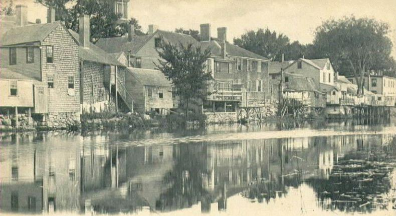 Riverfront at Ipswich, MA; from a 1906 postcard.